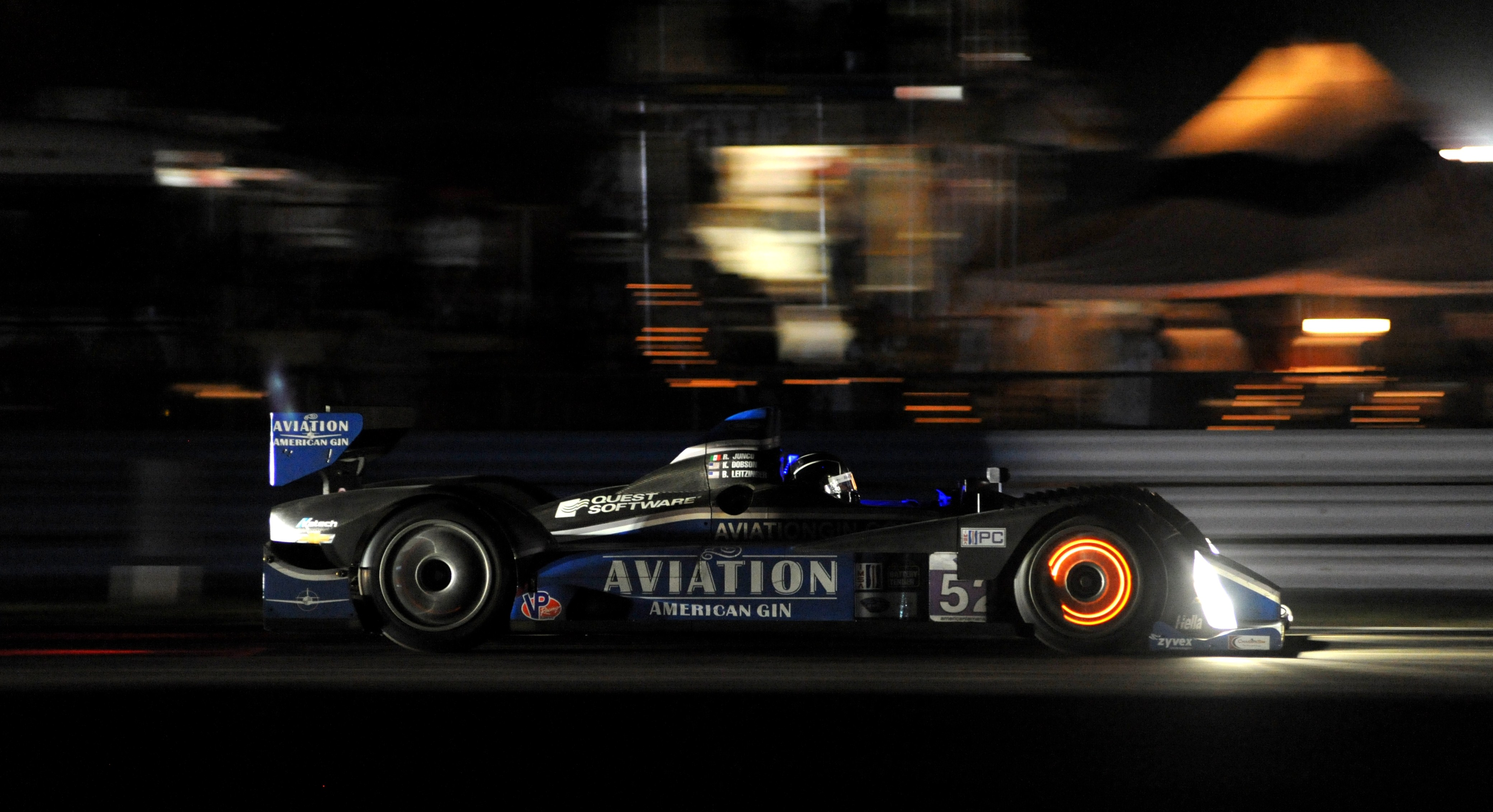 Butch Leitzinger at the 2012 12 Hours of Sebring driving the #52 PC for PR1/Mathiasen Motorsports. The discs for the front brakes are red hot due to braking to make it into the next turn.